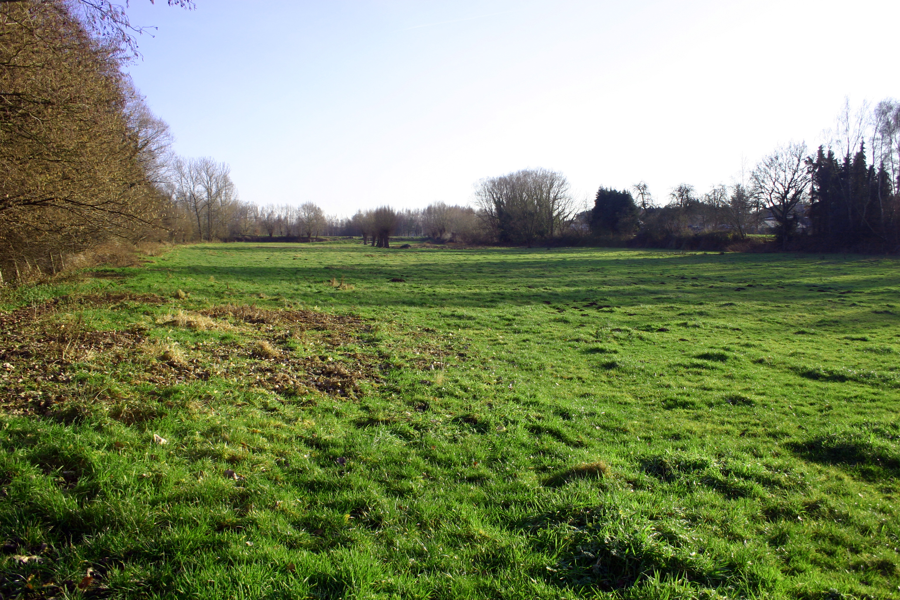 Rozendaal valley in Vissenaken (Tienen, The Flanders, Belgium)